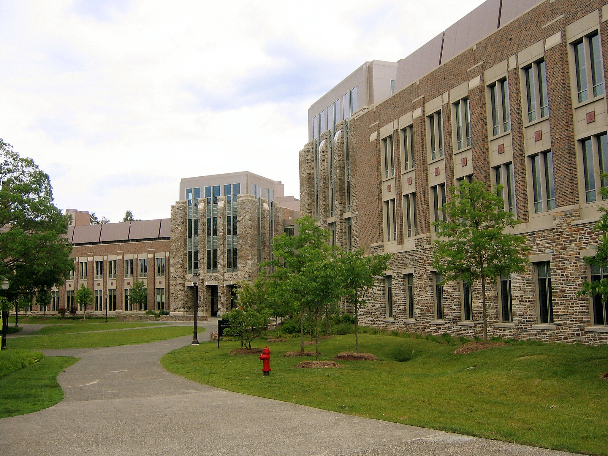 CIEMAS at Duke University